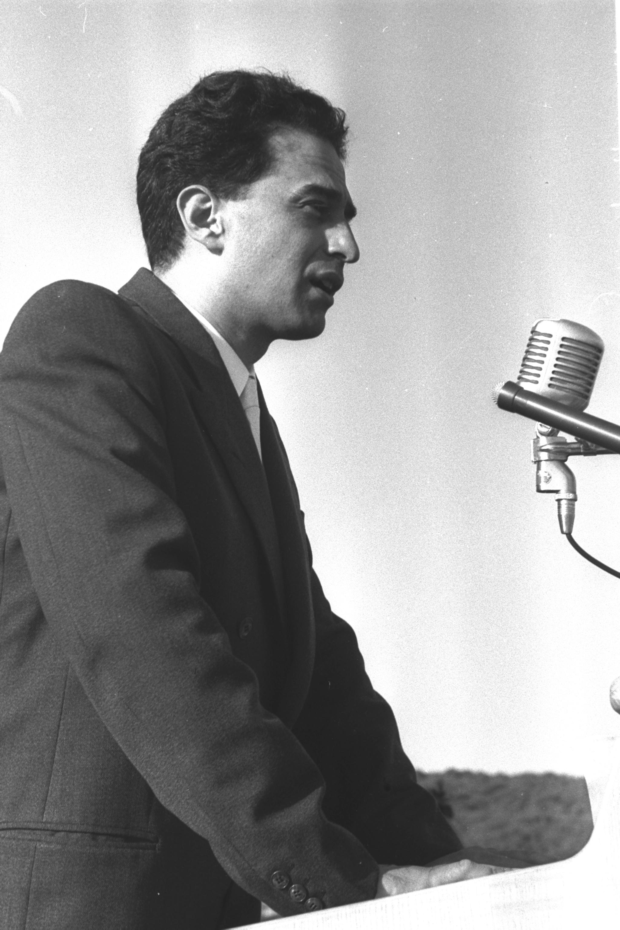 PROFESSOR AMOS DE SHALIT SPEAKING AT THE DEDICATION OF THE NUCLEAR REACTOR BUILDING AT THE WEIZMANN INSTITUTE IN REHOVOT.